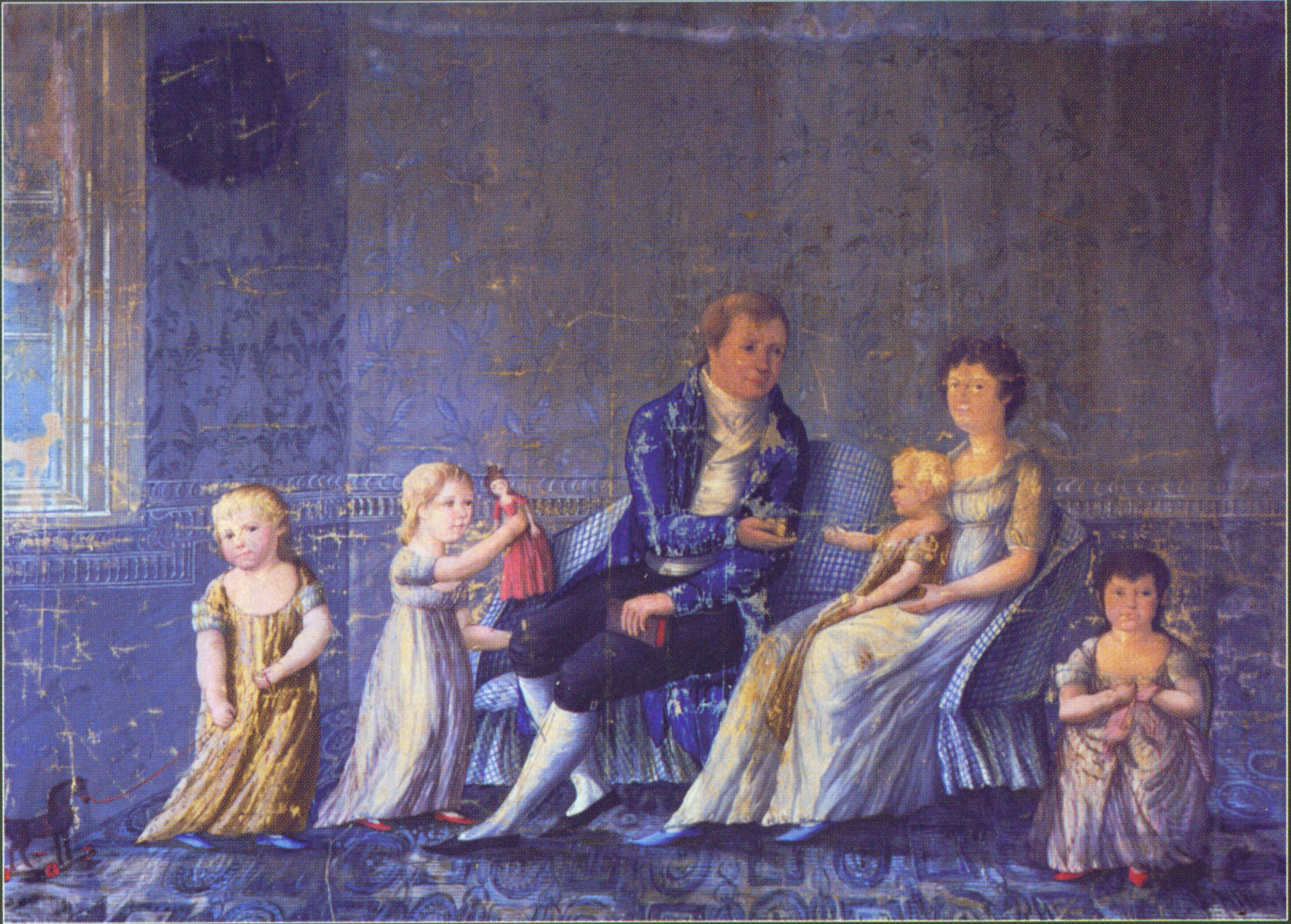 Portrait of Elias Hasket Derby Jr. who in 1801 had extended the tunnels in Salem, Ma.